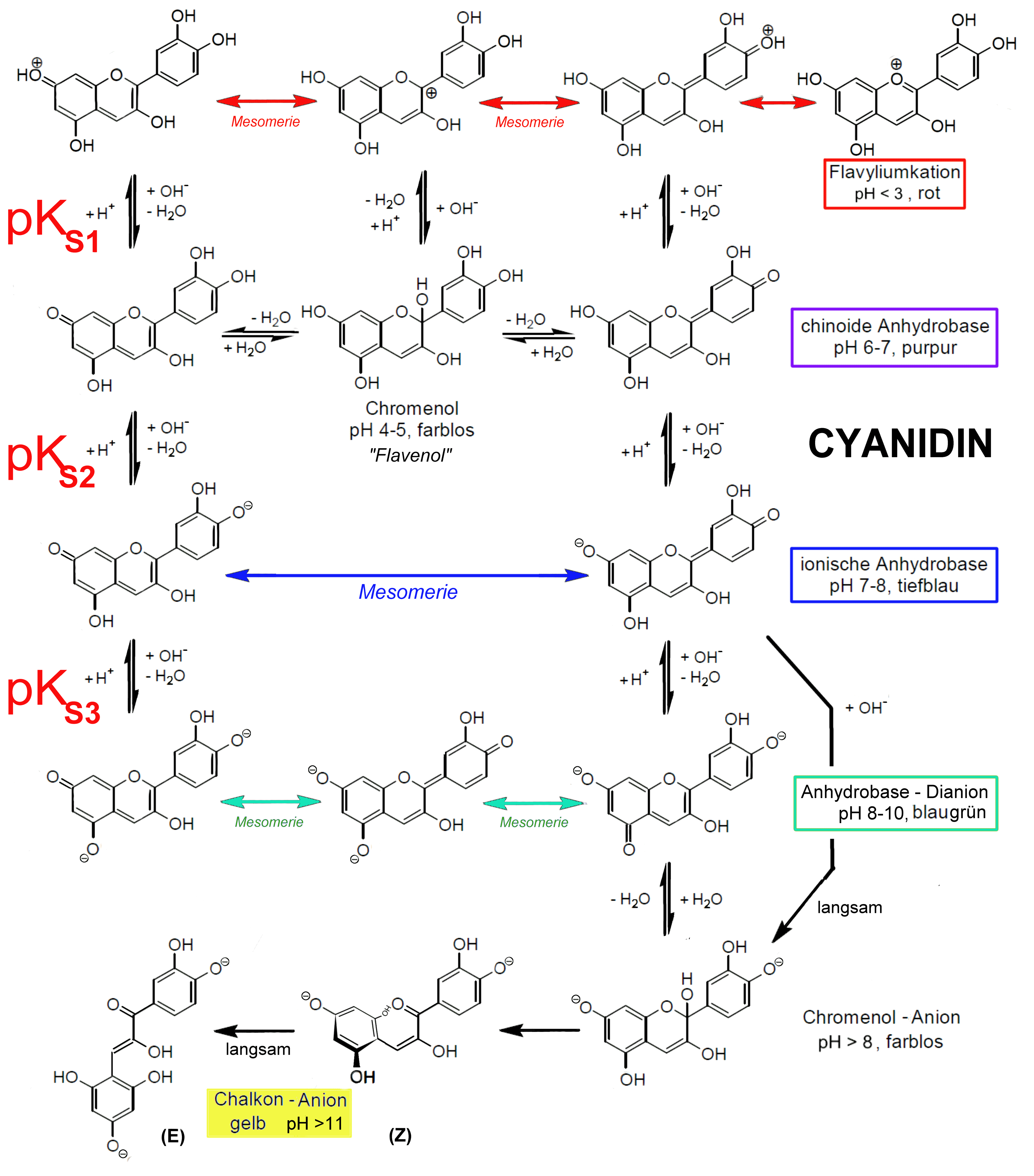 pH dependence of cyanidine structures (pH 1–10)